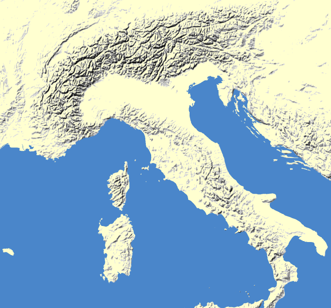 Shaded relief of Alps and Italy